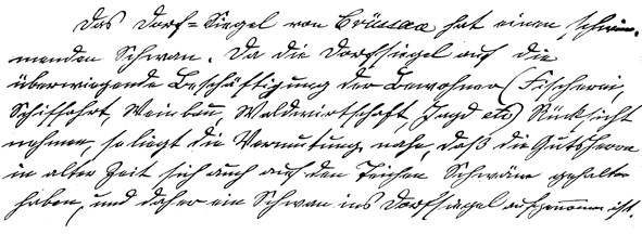 History of Krüssau, Germany